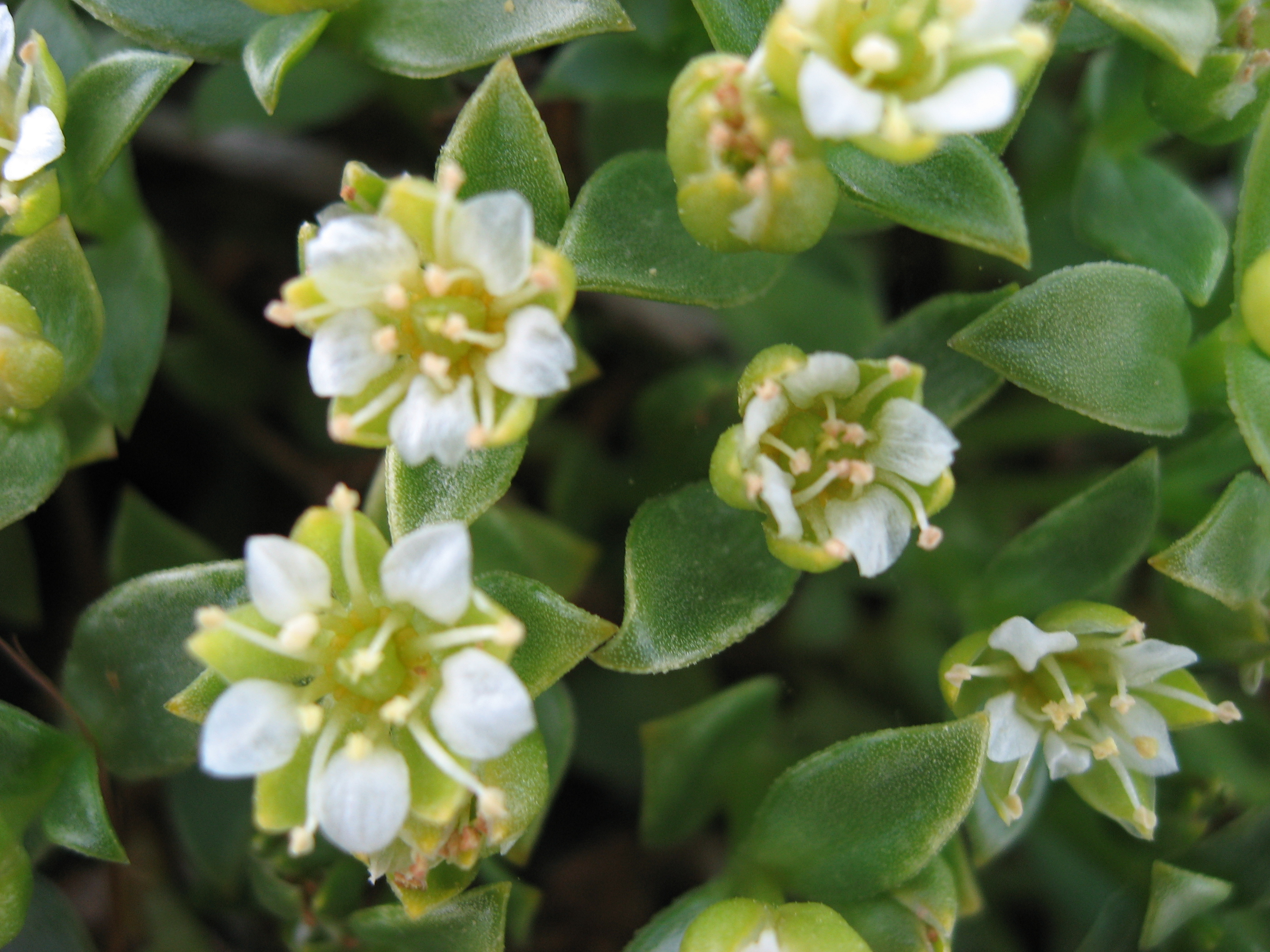 Seaside Sandplant (Honckenya peploides) photographed near Upernavik Kujalleq, Greenland near individuals of Mertensia maritima.